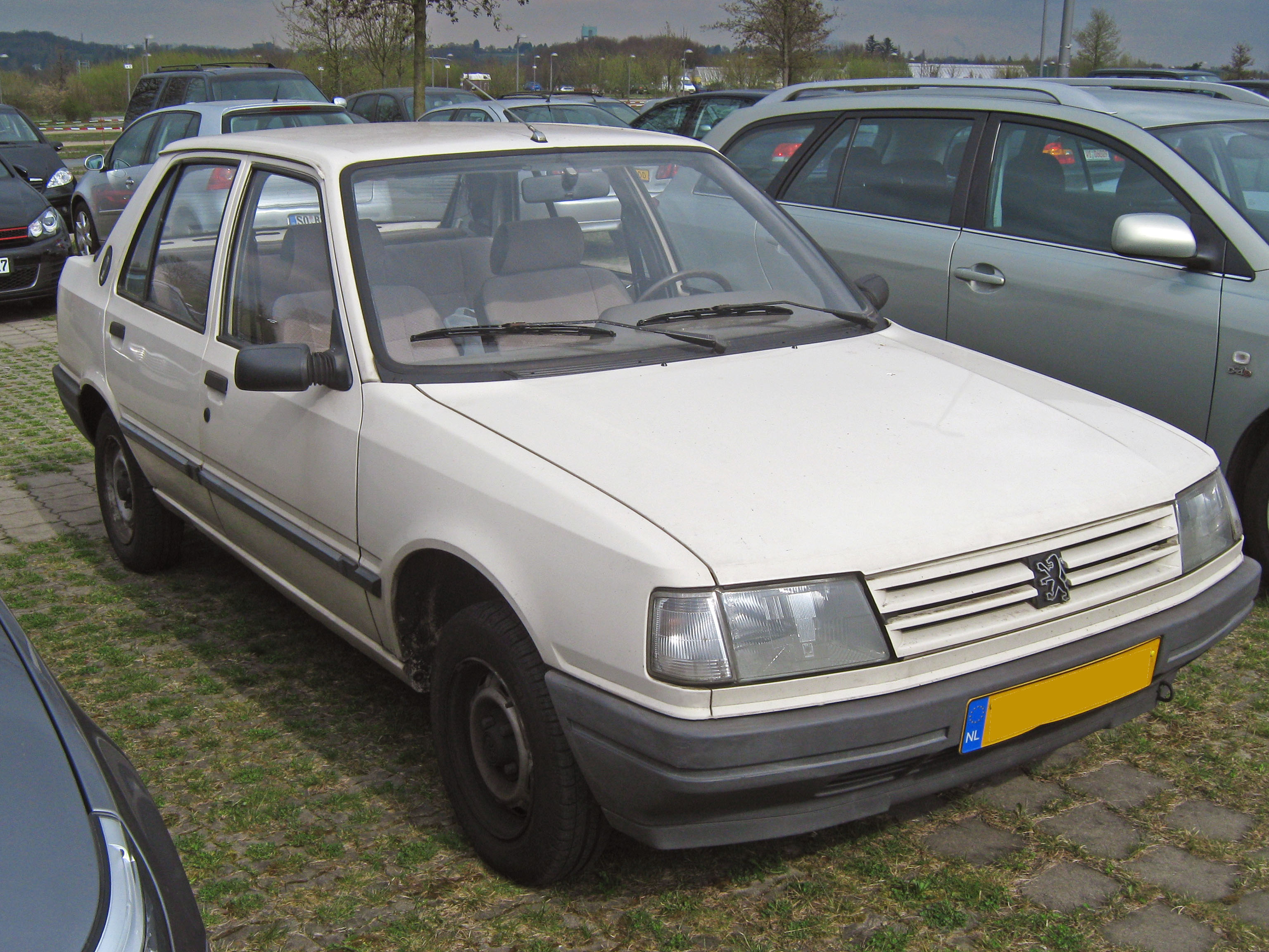 Peugeot 309 5d Mk1 front